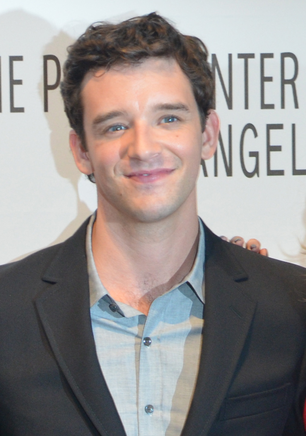 Michael Urie at the 2012 PaleyFest: Fall TV CBS Preview Party.